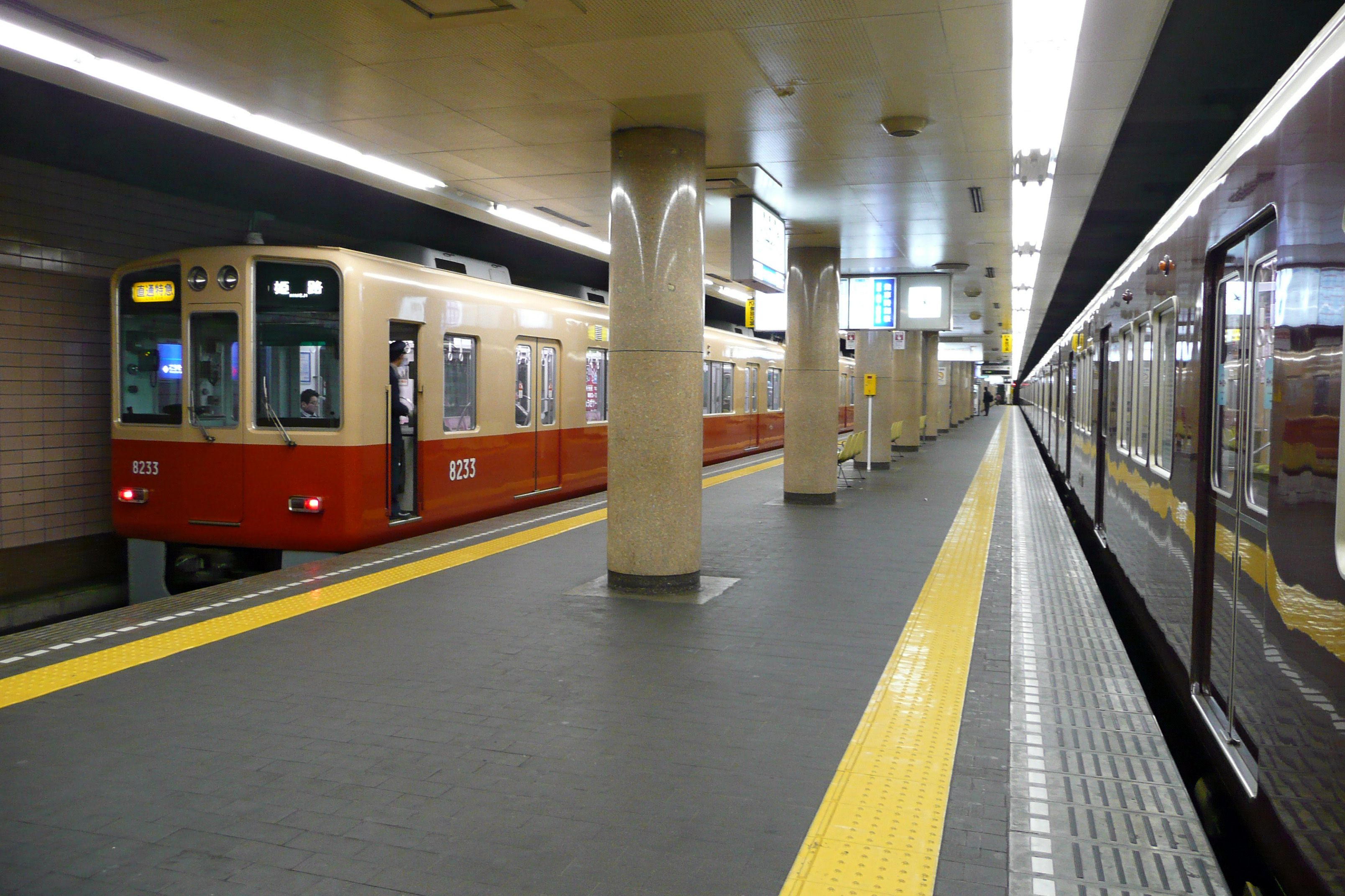 Shinkaichi Station in Kobe, Hyogo prefecture, Japan